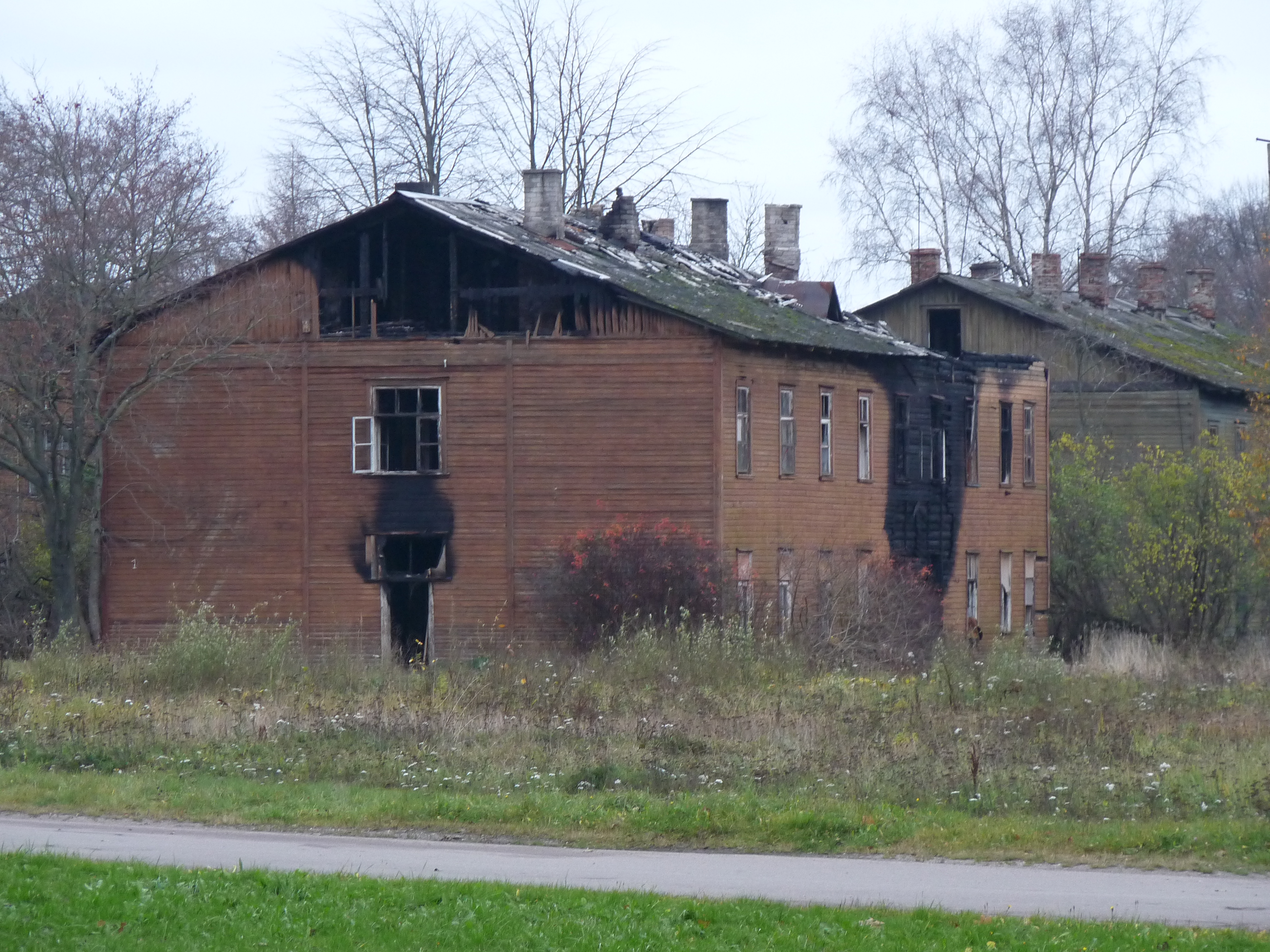 Wooden apartment buildings in Tallinn, Estonia